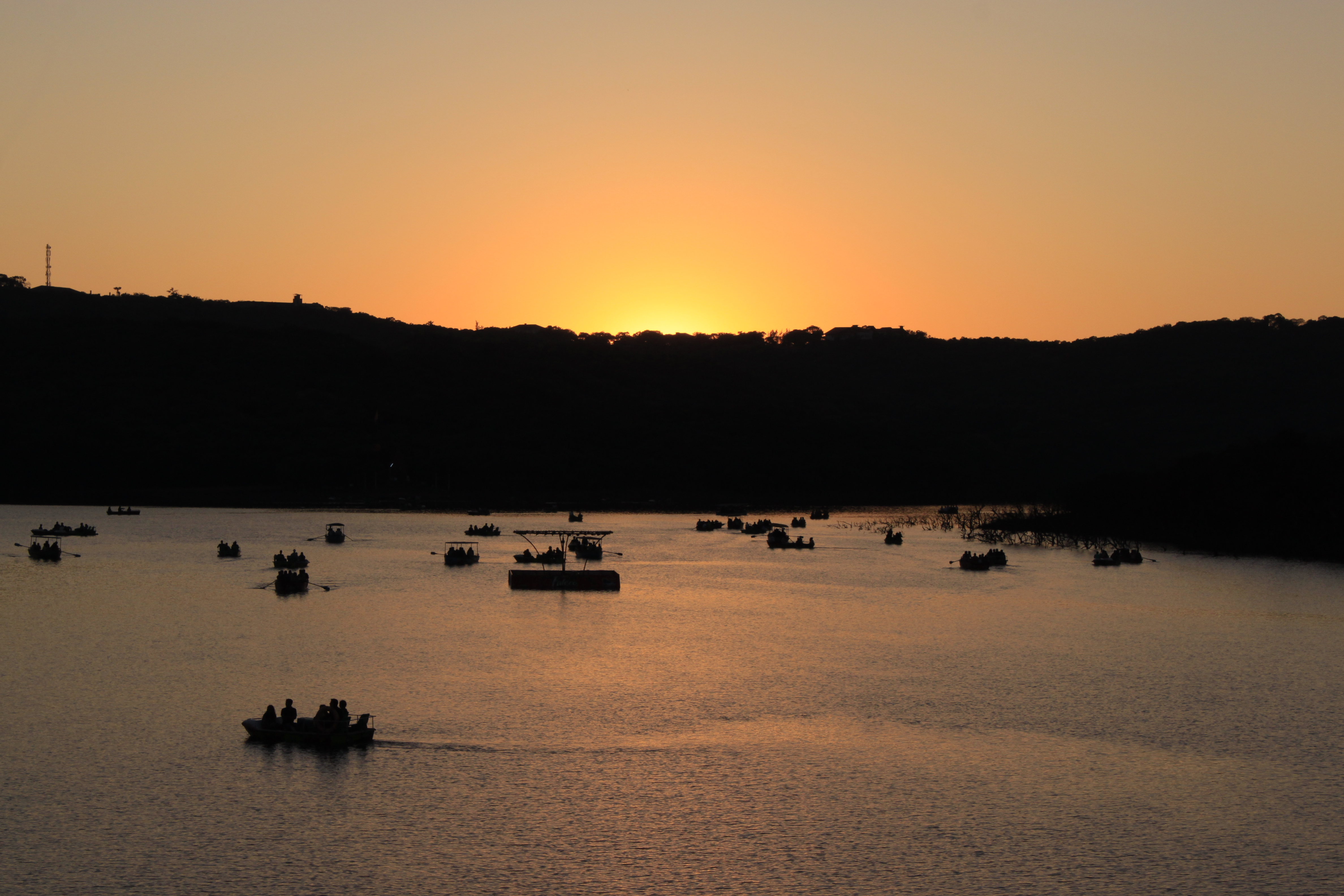 A sunset seen from the Venna Lake